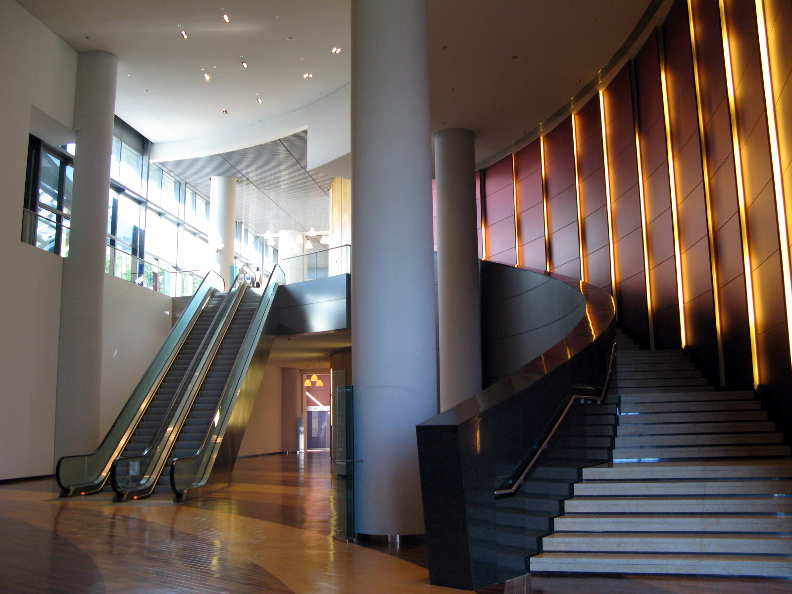 Cyberport Tower 3 Lobby